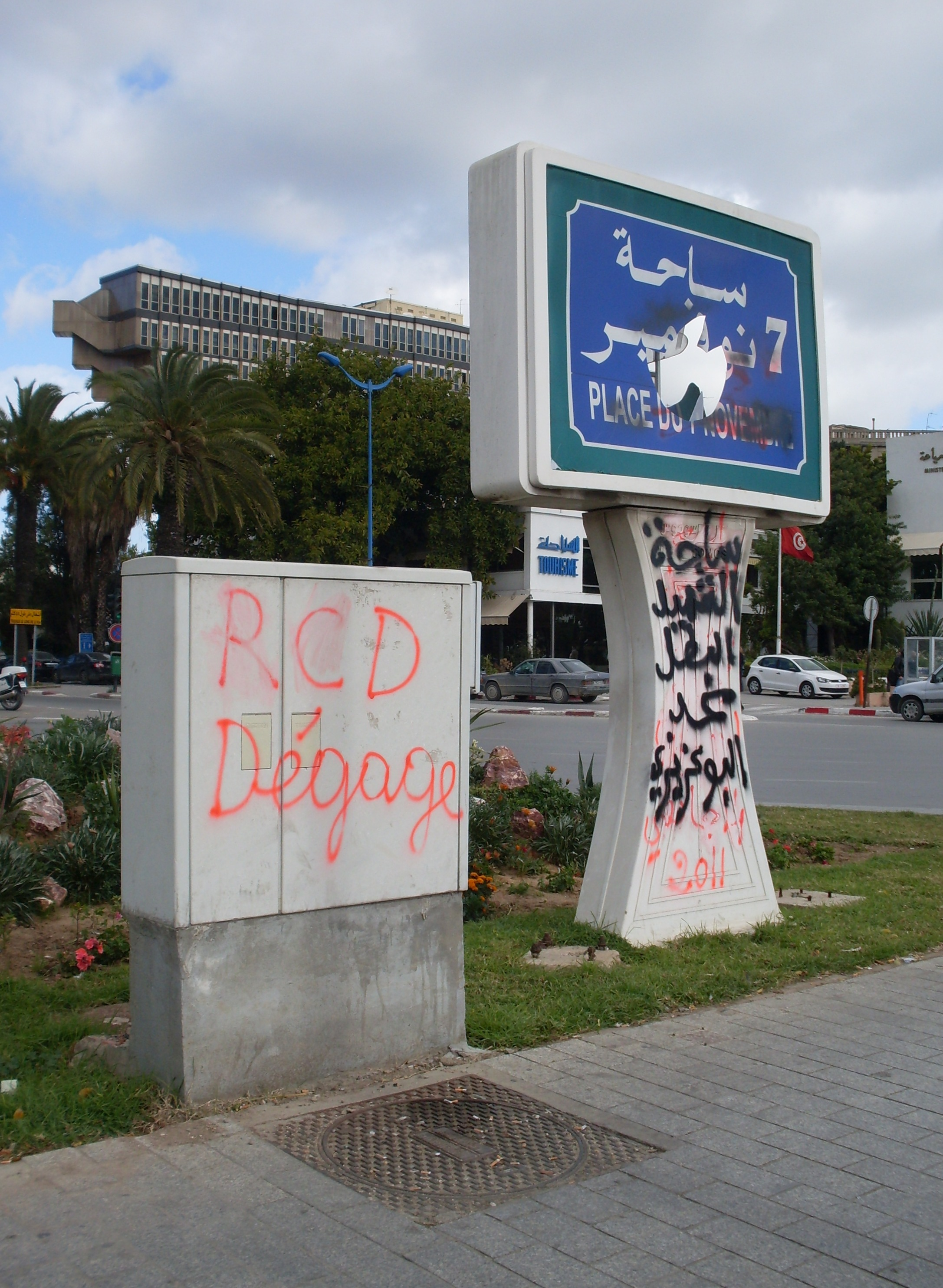 "RCD, Get Out", on the 7th of November Square in Tunis, during the Jasmine Revolution